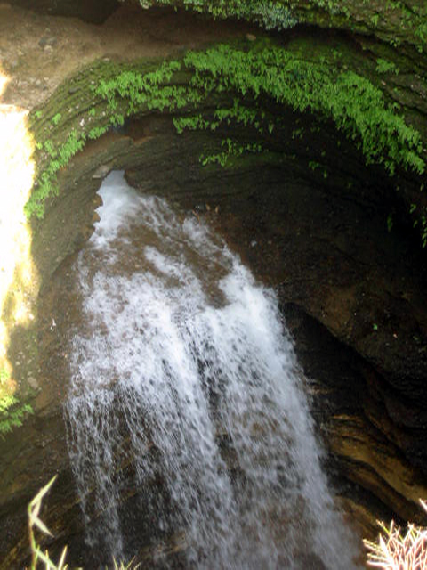 Davisefalls in Pokhara, Nepal